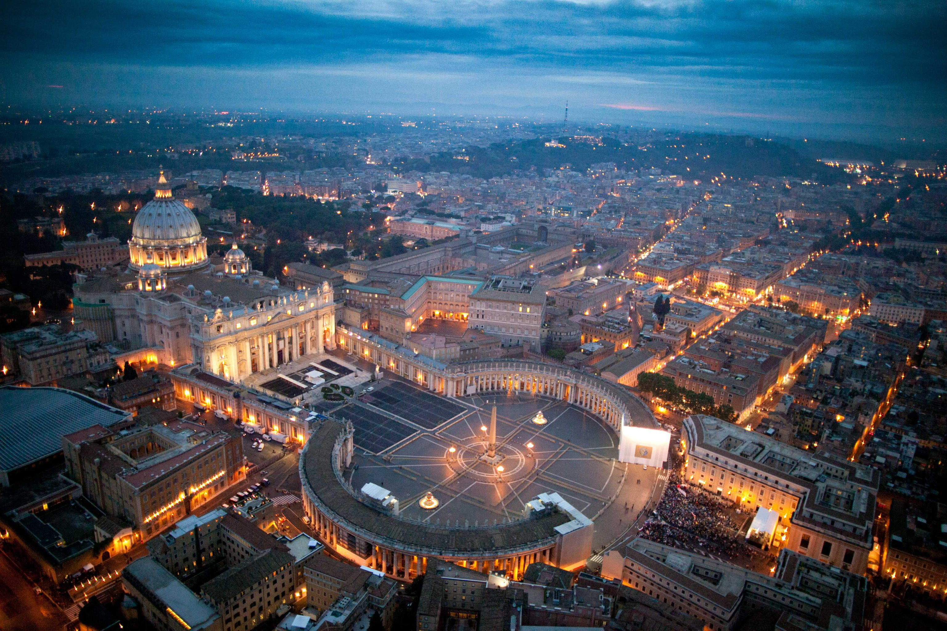 This image was originally posted to Flickr by lafiguradelpadre at It was reviewed on 8 April 2019 by FlickreviewR 2 and was confirmed to be licensed under the terms of the cc-by-2.0.